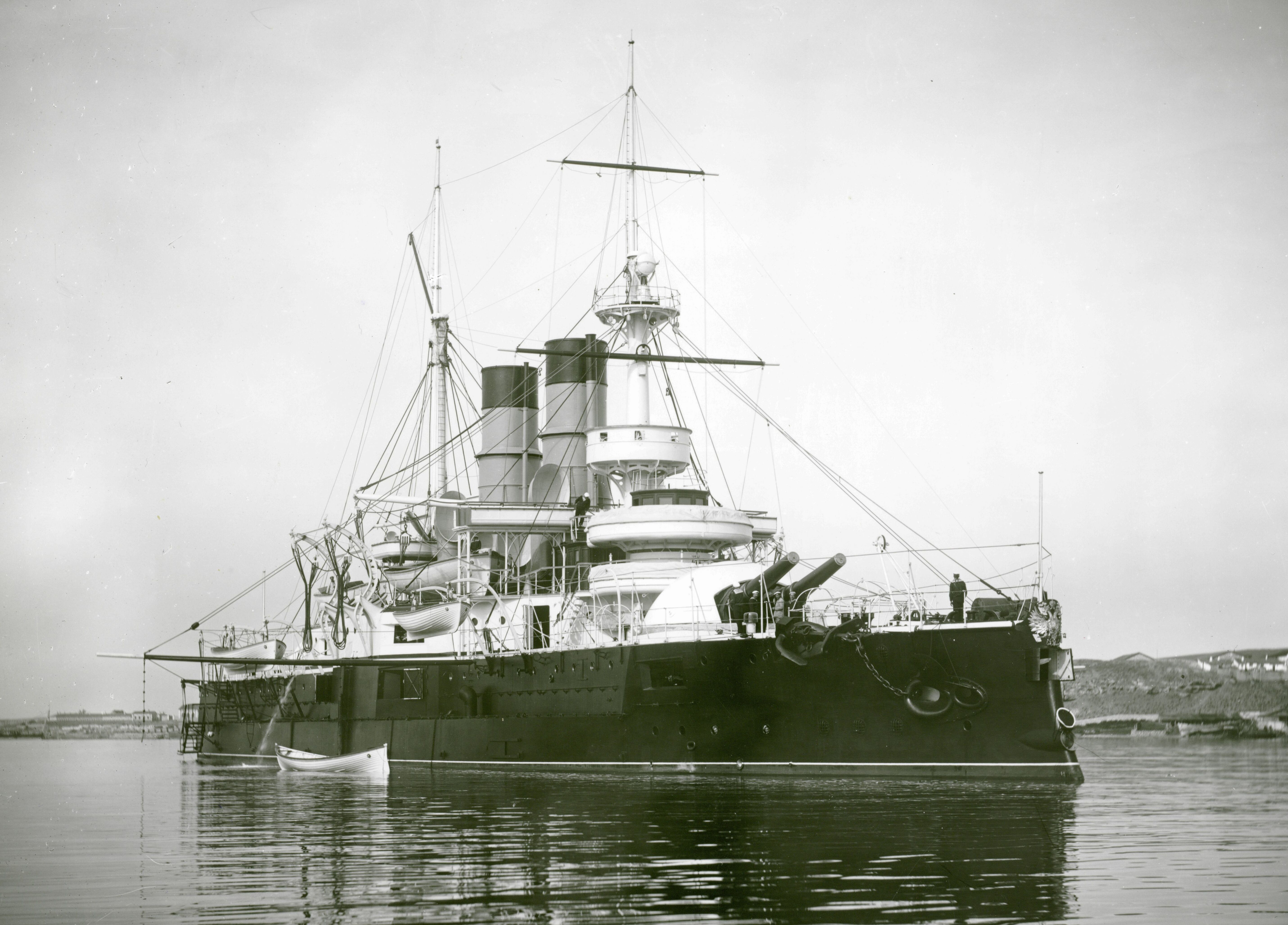 The Imperial Russian battleship Dvenadtsat' Apostolov in Sevastopol.